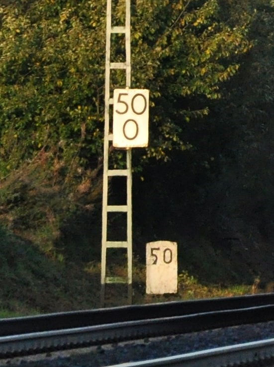 Kilometer sign and kilometer stone next to Langerwehe.